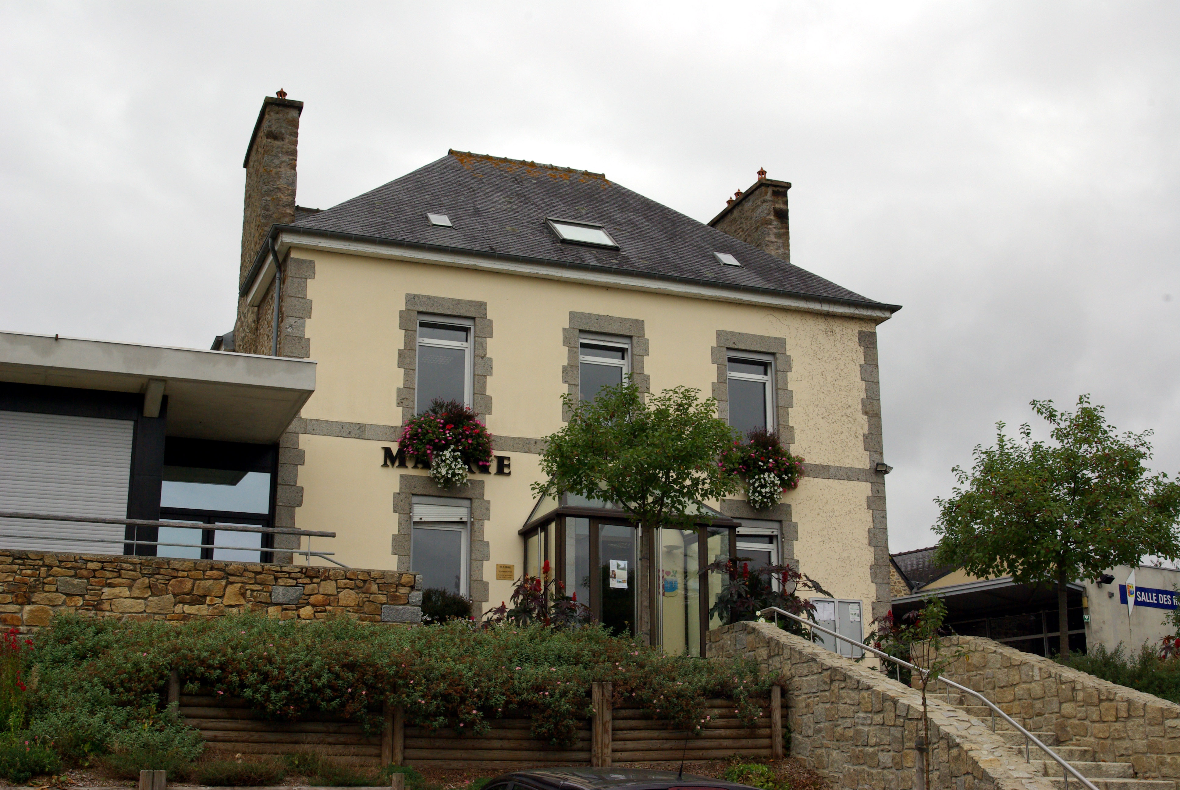 City Hall La Meaugon